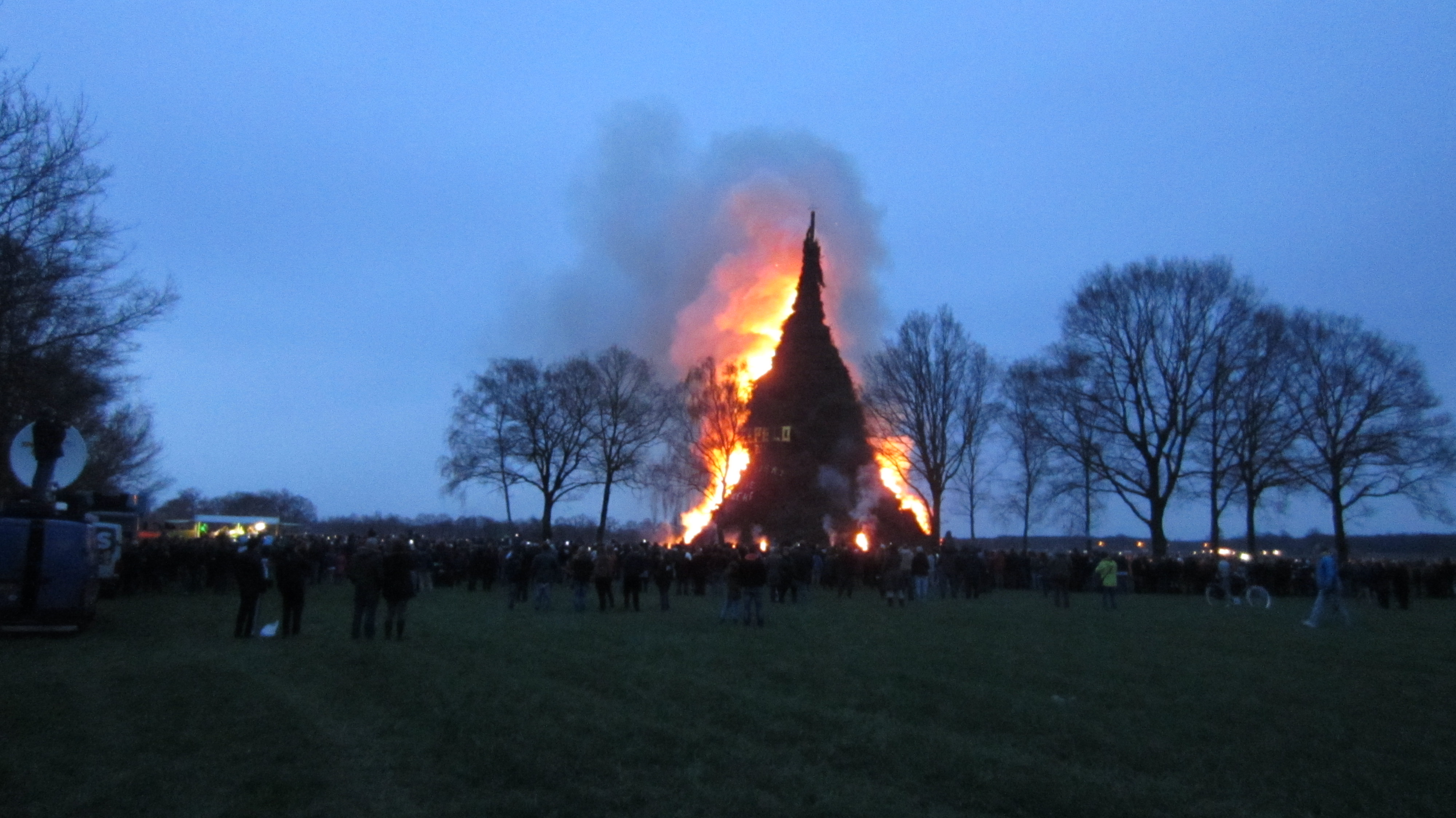 Easter Fire in Espelo in 2012, with a world record height of 45.98 metres.